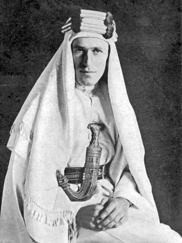 Lieutenant Colonel Thomas Edward Lawrence.